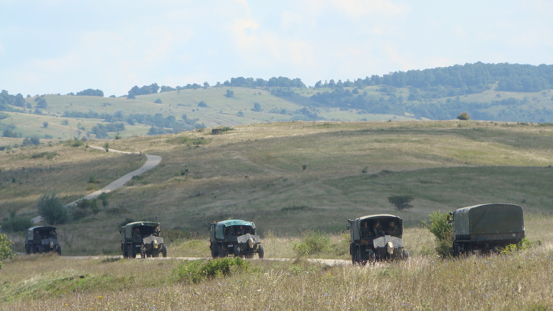 A truck column towing M-30 howitzers during a military exercise of the 69th Mixed Artillery Regiment